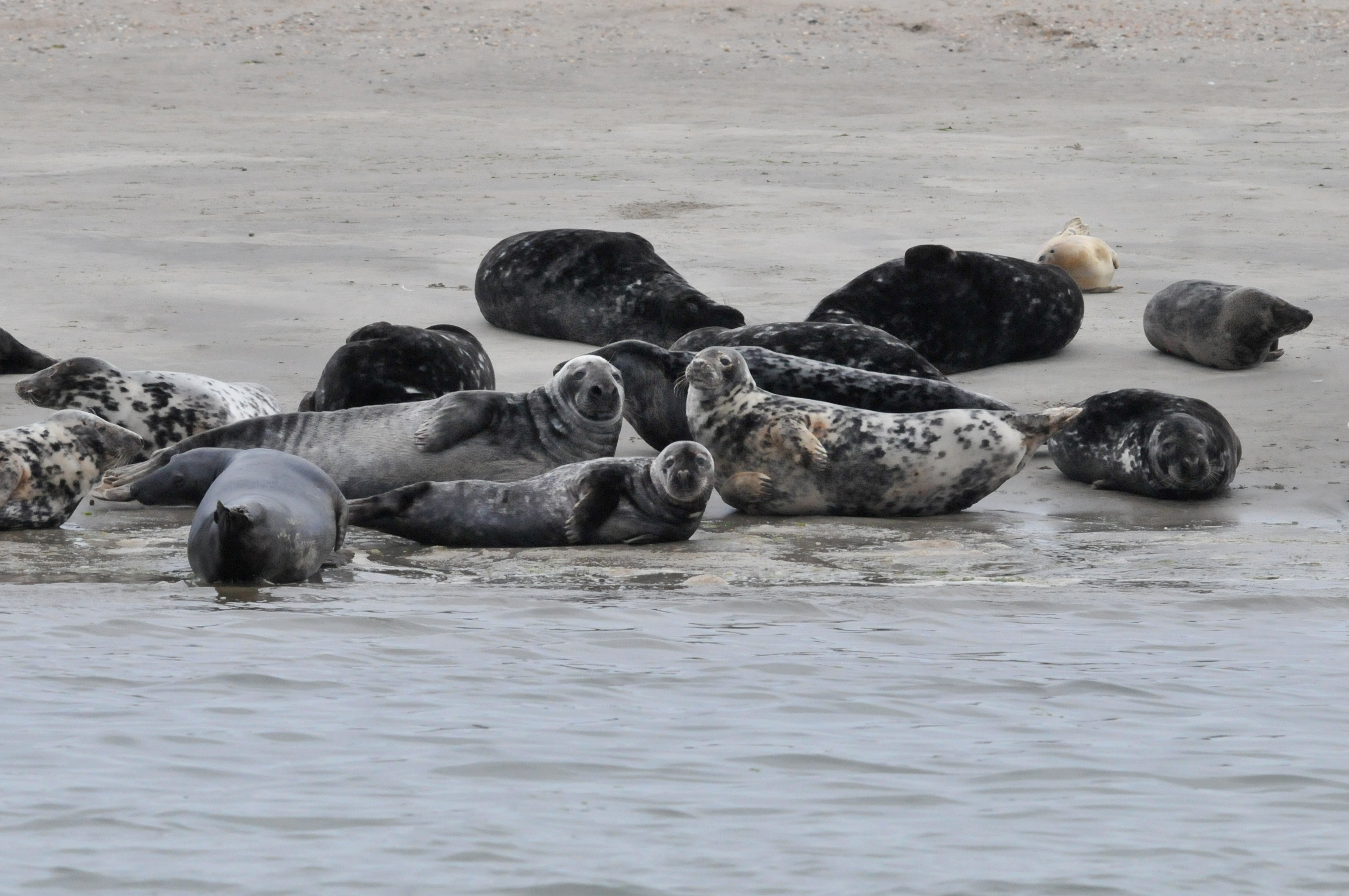 seals on De Hors